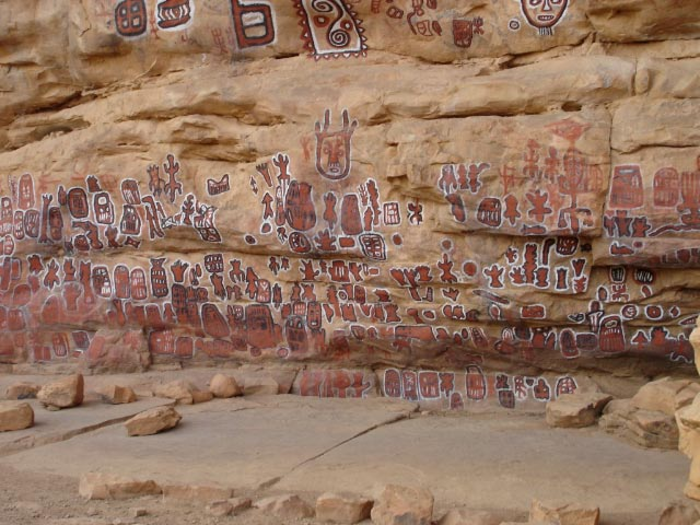 Dogon circumsion cave painting, photographed in Mali, December 2006.